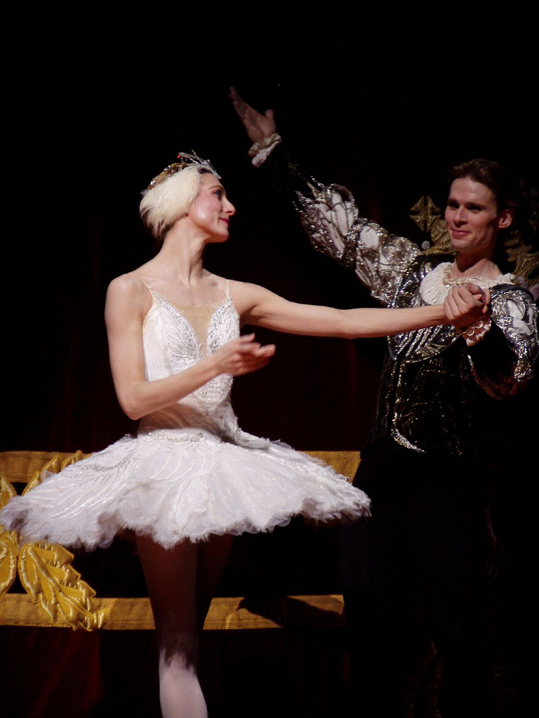 Swan Lake ballet at London's Royal Opera House. Odette (pictured here) is played by Zenaida Yanowsky